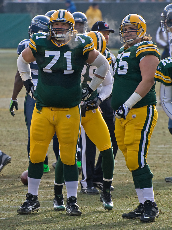 Seattle vs. Green Bay • December 27, 2009 at Lambeau Field in Green Bay, Wisconsin.